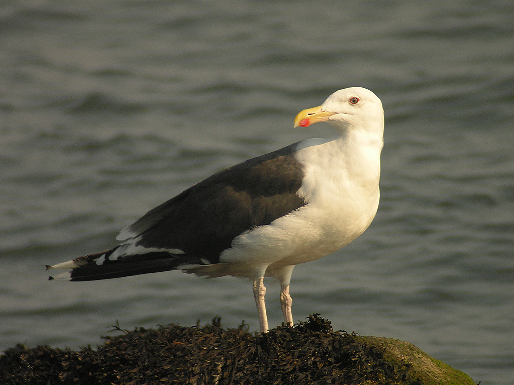 Who is the biggest baddest gull of all? In this corner we have the Great Black-backed Gull, weighing in at 3.5 pounds (1.65 kilos) and sporting a wingspan of 65". The dark back and large bill are indeed impressive, and the light iris with red orbital ring add to the beauty of the beast. Pink legs complete the picture.